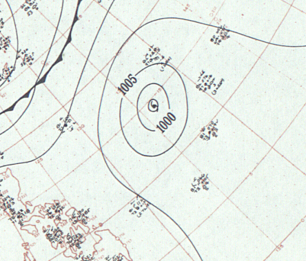 Surface weather analysis of Typhoon Hester.